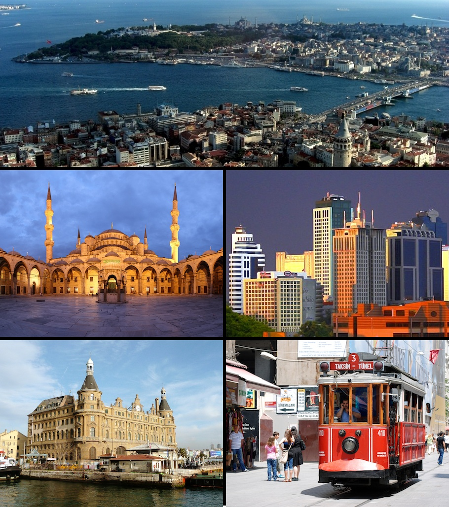 Collage of Istanbul